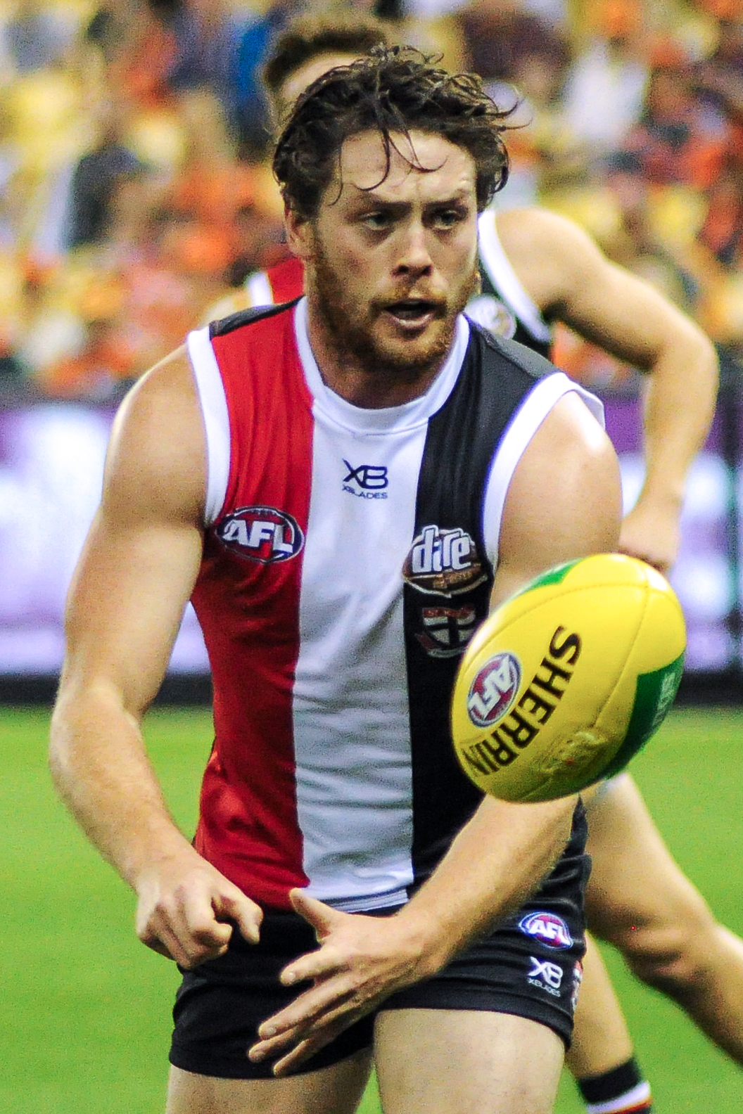 Jack Steven during the AFL round five match between St Kilda and Greater Western Sydney on 21 April 2018 at Etihad Stadium in Melbourne, Victoria.